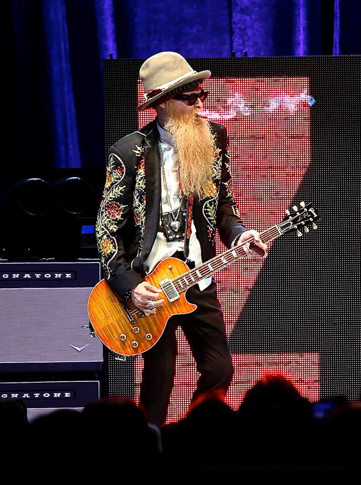 Billy Gibbons at The Alamodome in San Antonio, Texas 12/7/13, private function not open to public